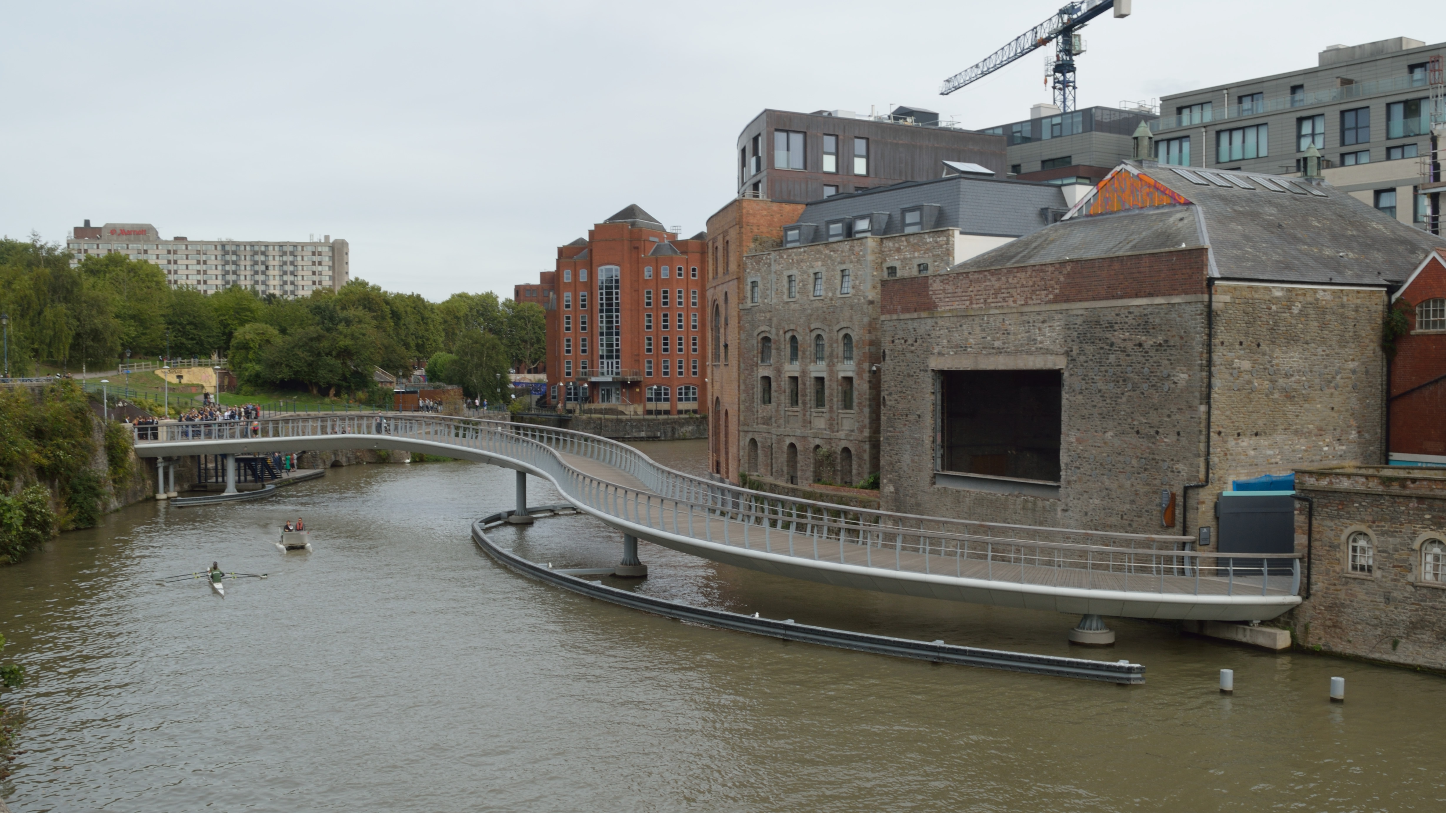 Castle Bridge, a pedestrian bridge from Castle Green to Finzels Reach in Bristol. Costing £2.7 million, developer was Cubex with architects The Bush Consultancy, engineering consultants Clarkebond and fabricator CTS Bridges.[1][2]